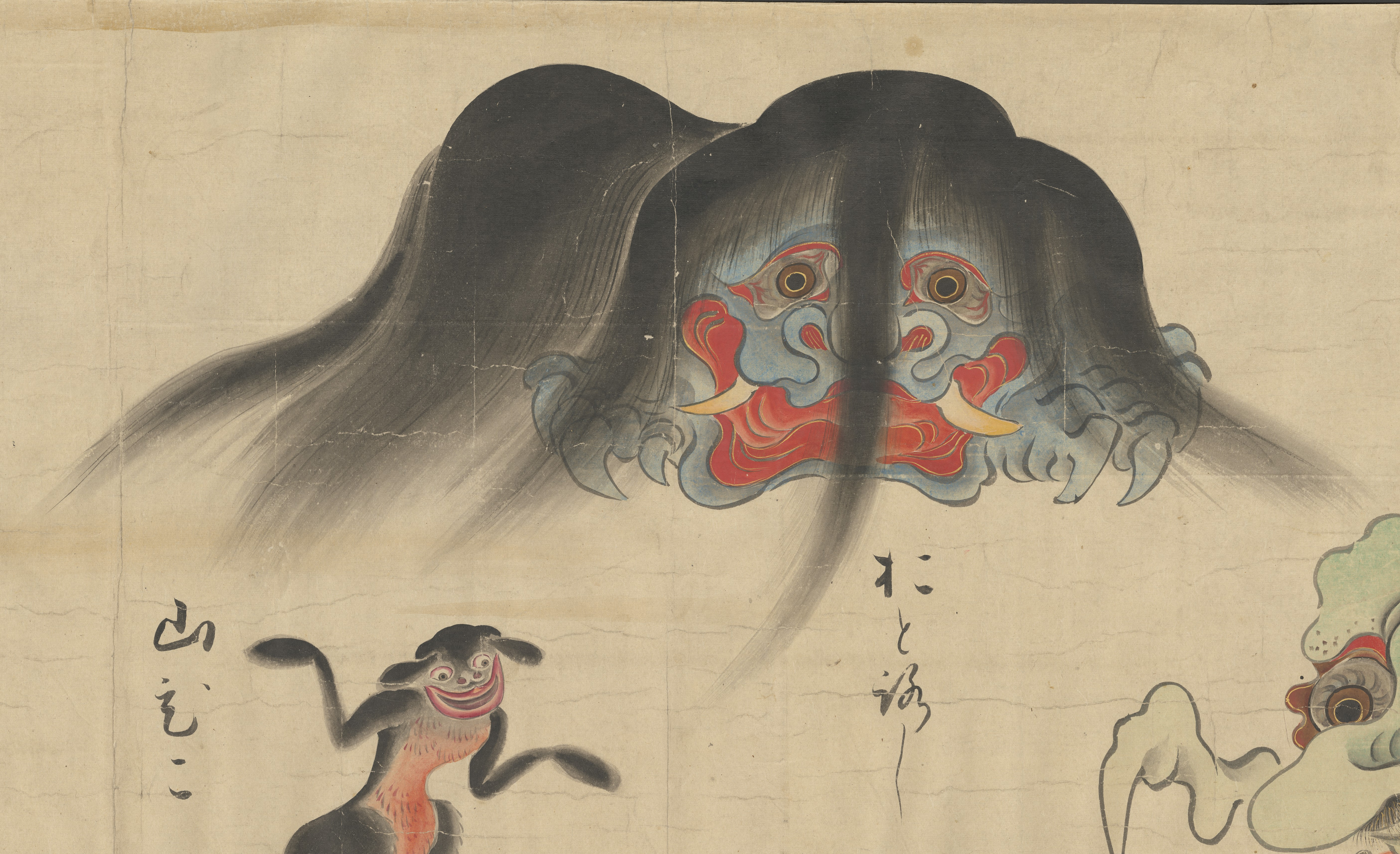 Otoroshi おとろし from Bakemono no e (化物之繪, c. 1700), Harry F. Bruning Collection of Japanese Books and Manuscripts, L. Tom Perry Special Collections, Harold B. Lee Library, Brigham Young University.